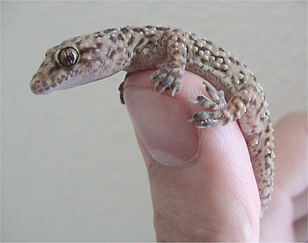 Picture of a Hemidactylus turcicus (gecko). Imported from en [1].